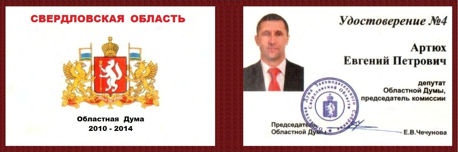 Identity cards of the Deputy of the Sverdlovsk regional Duma of the (2010-2014 y.).